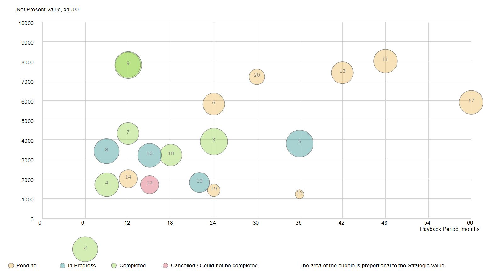 Net Present Value vs Payback time and Strategic Value in Portfolio Management Simulation SimulTrain+. This is example for setting the funding priority when manage a Portfolio of project by Strategic Objectives.